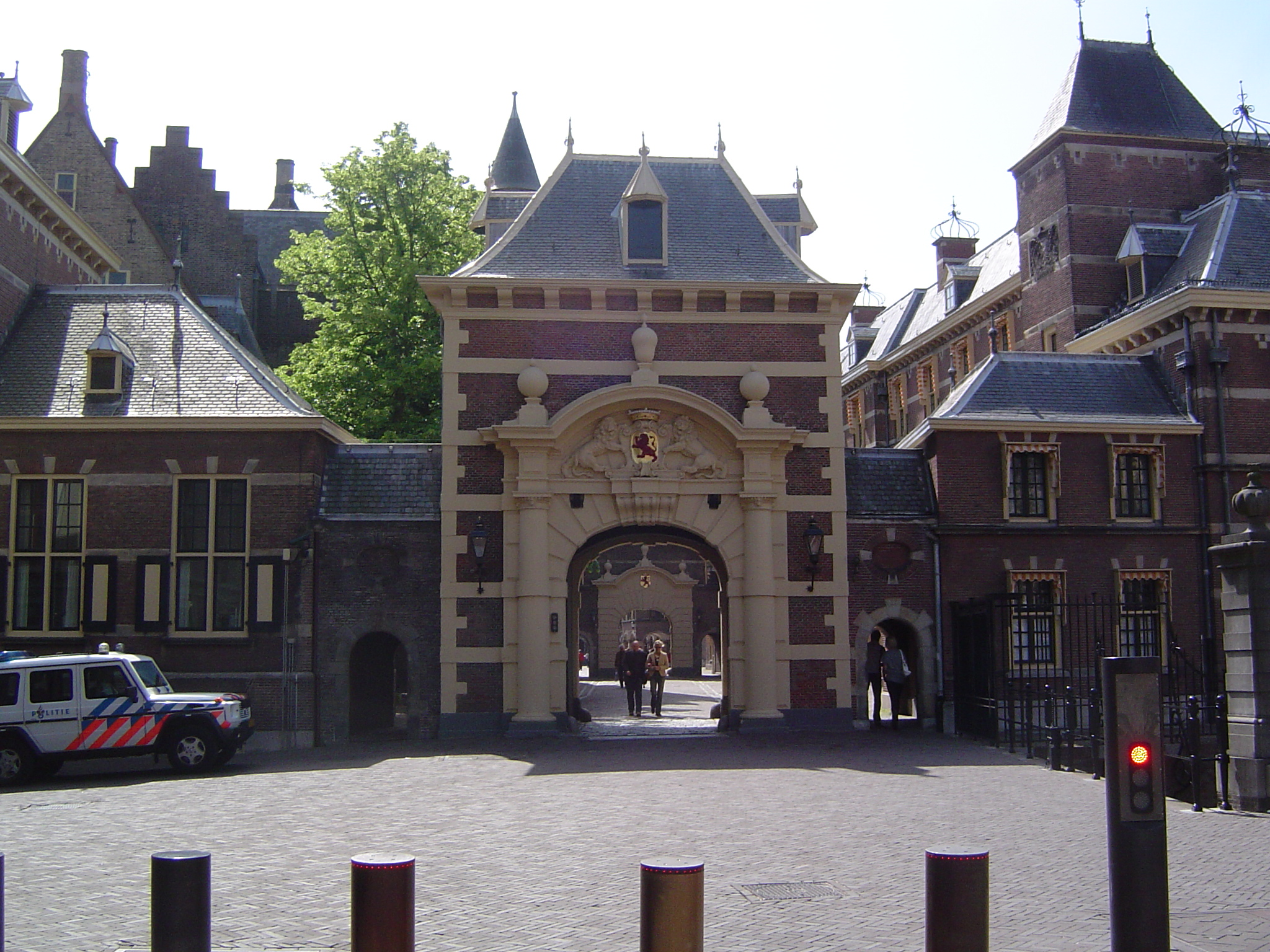 Binnenhog - entrance from Plein, The Hague, Holland